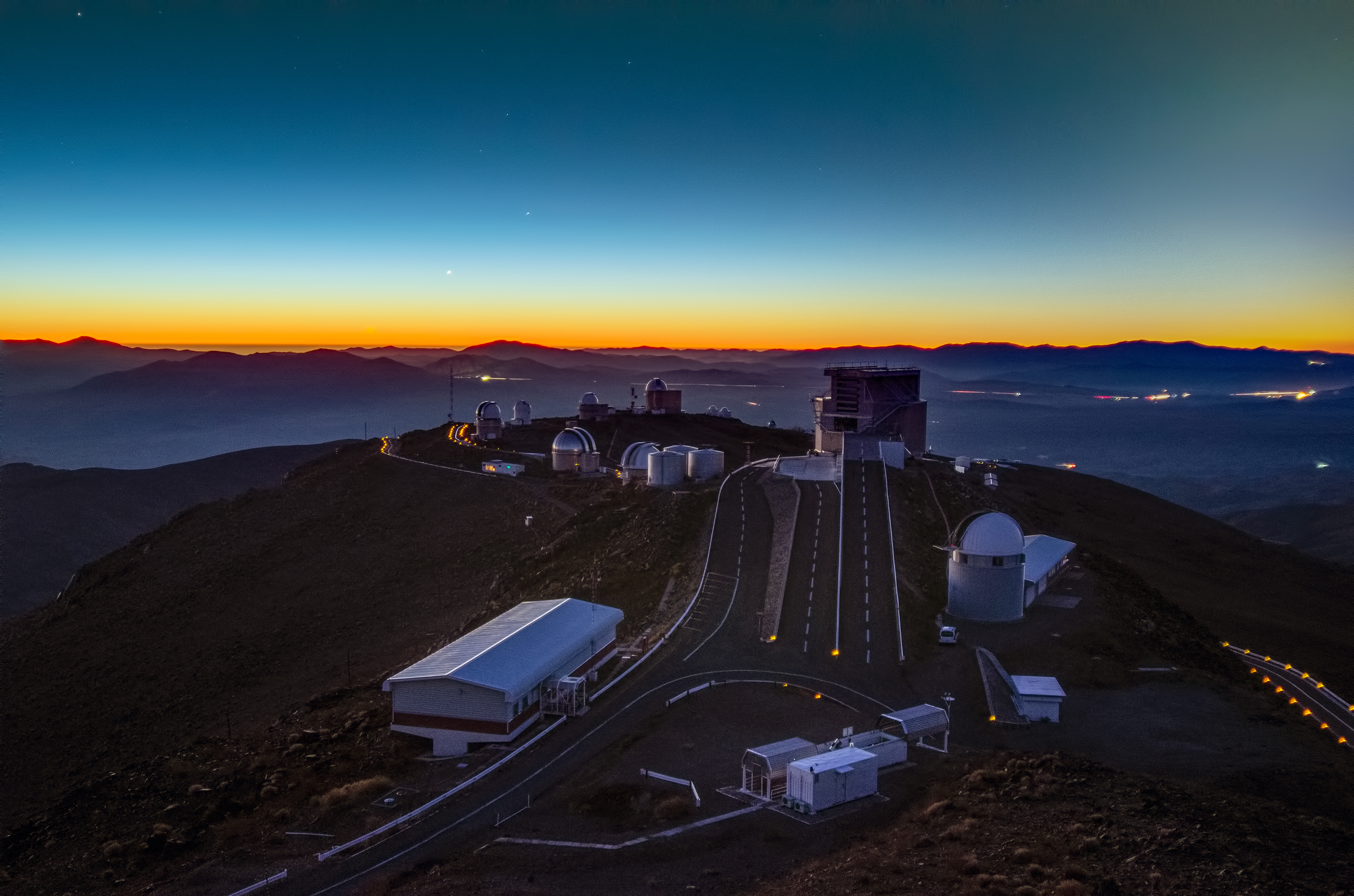 The Sun sets over La Silla, one of ESO's observing sites in Chile, creating a fiery orange glow along the horizon. This image, taken by David Jones, shows the alignment of three planets over the summit of ESO's telescopes in June 2013. Here the trio visible to the left of centre is composed of Jupiter (bottom left, almost invisible in orange sunset), Venus (centre), and Mercury (top right) — see labelled image. Alignments like this happen only once every several years, so it is a real treat for photographers and astronomers. When three (or more) celestial objects align like this in the sky, it is called a "syzygy". Check this syzygy image, showing almost the same scene (also from May 2013). "This image was taken during a five-night observing run with the 3.6-metre New Technology Telescope on La Silla, so I was very fortunate to be awarded observing time at just the right time to take the picture," adds photographer Dave Jones. "The close clustering of the three planets only lasted a week or so, and the next time something like this will come around will be 2026, so it’s a very lucky snap indeed!" Based at one of the driest places on Earth on the outskirts of the Atacama Desert in Chile, atmospheric conditions are so stable here they provide crystal-clear views of our night sky. This image is actually a blend of two photos of different exposure lengths, producing a detailed view of the observing site as the Sun begins to set.